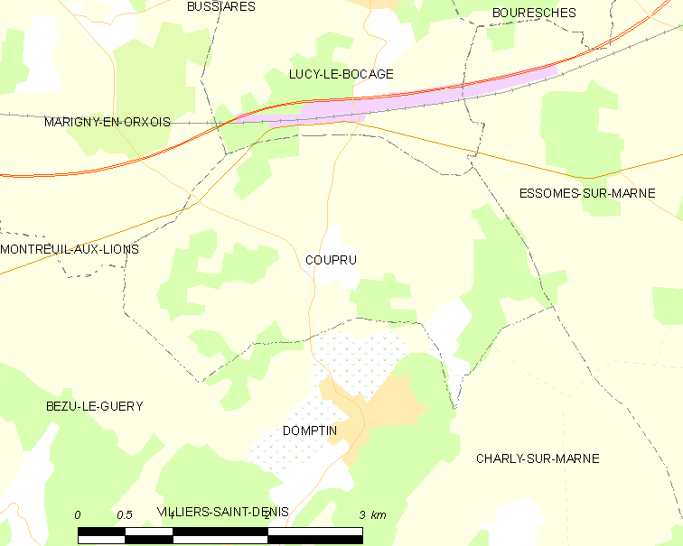 Map of French commune: Coupru Map commune FR insee code 02221.png